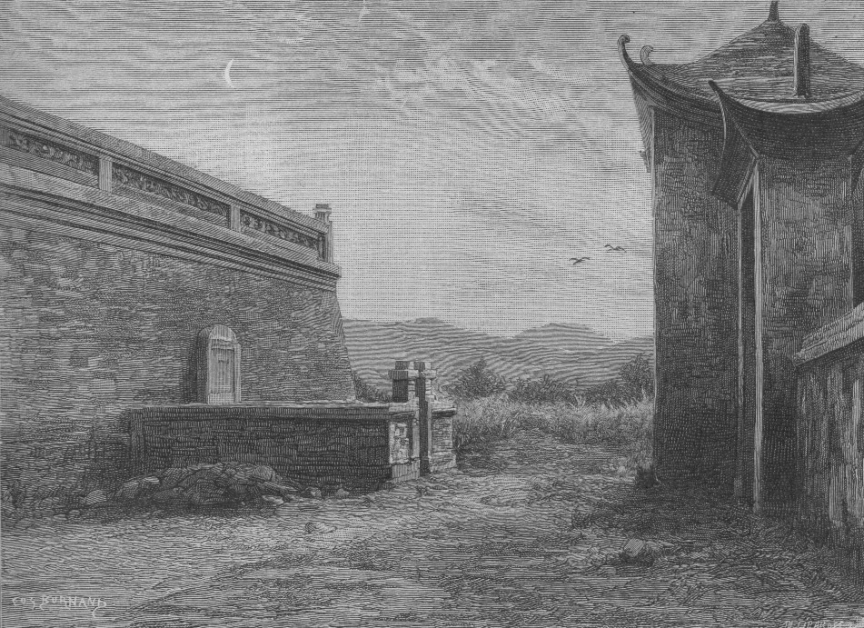 2nd Lieutenant Bossant's Tomb in Lang Son